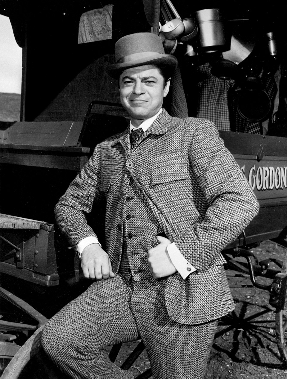 Photo of Ross Martin as Artemus Gordon from the television program The Wild, Wild West.